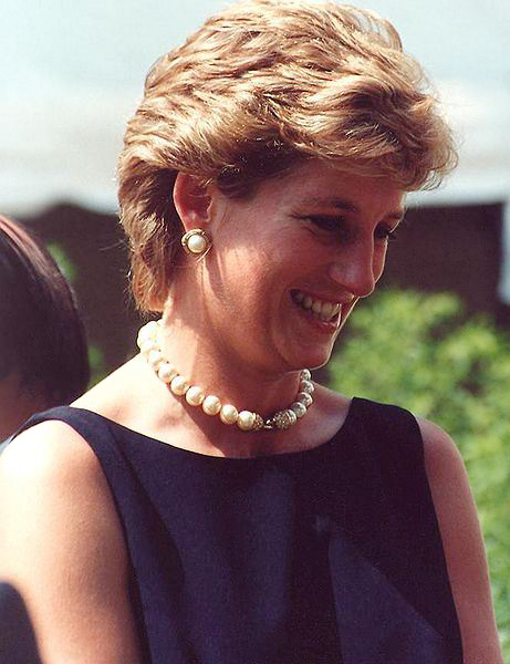 The Leonardo Prize